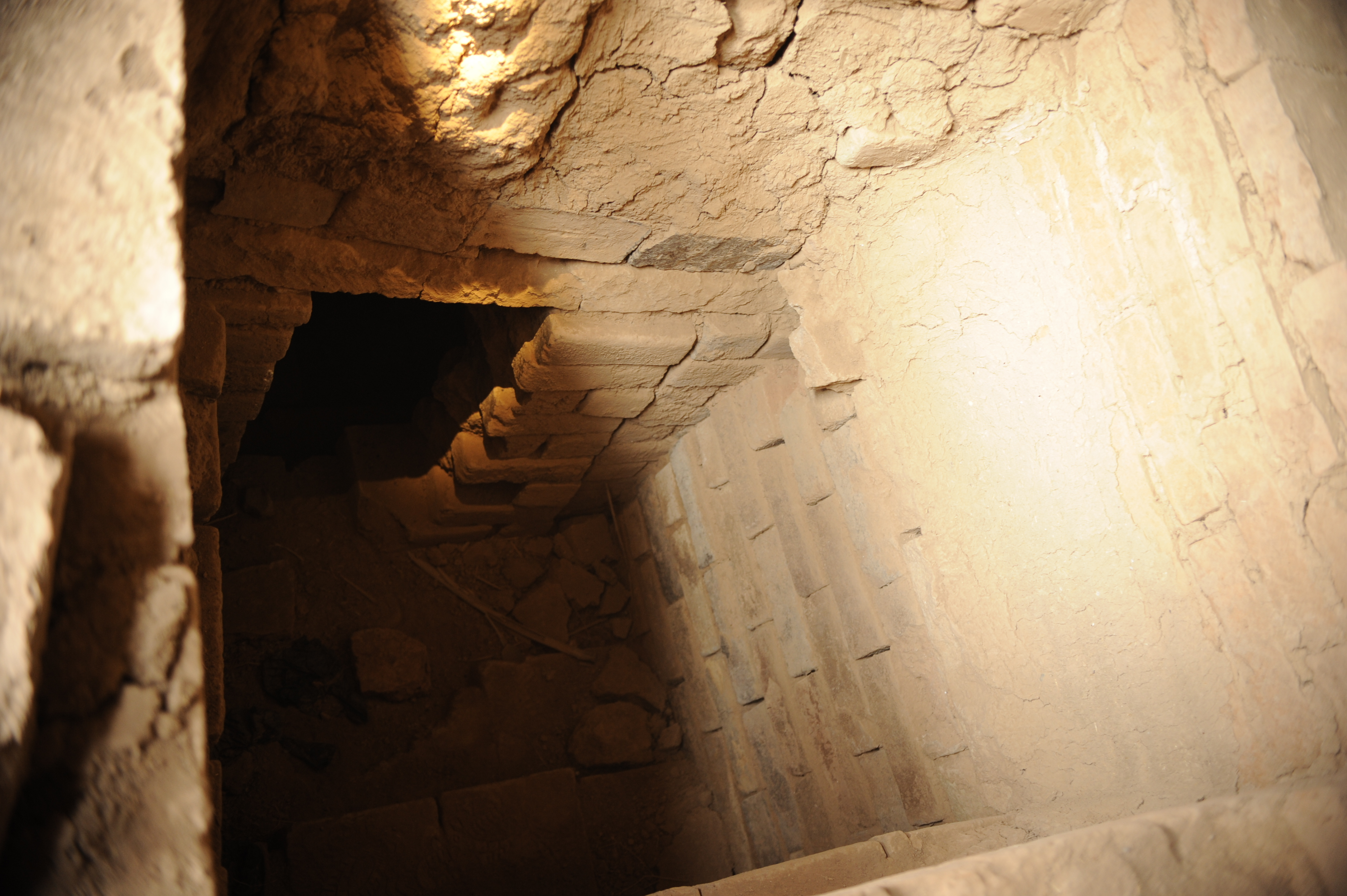 The entrance to a queen's tomb in what once was the Northwest palace in the ancient city of Calah, which is now known as Nimrud, Iraq, Nov. 19. Nimrud is in consideration by United Nations Educational, Scientific, and Cultural Organization to become a protected World Heritage site. UNESCO works to create the conditions for genuine dialogue based upon respect for shared values and the dignity of each civilization and culture.